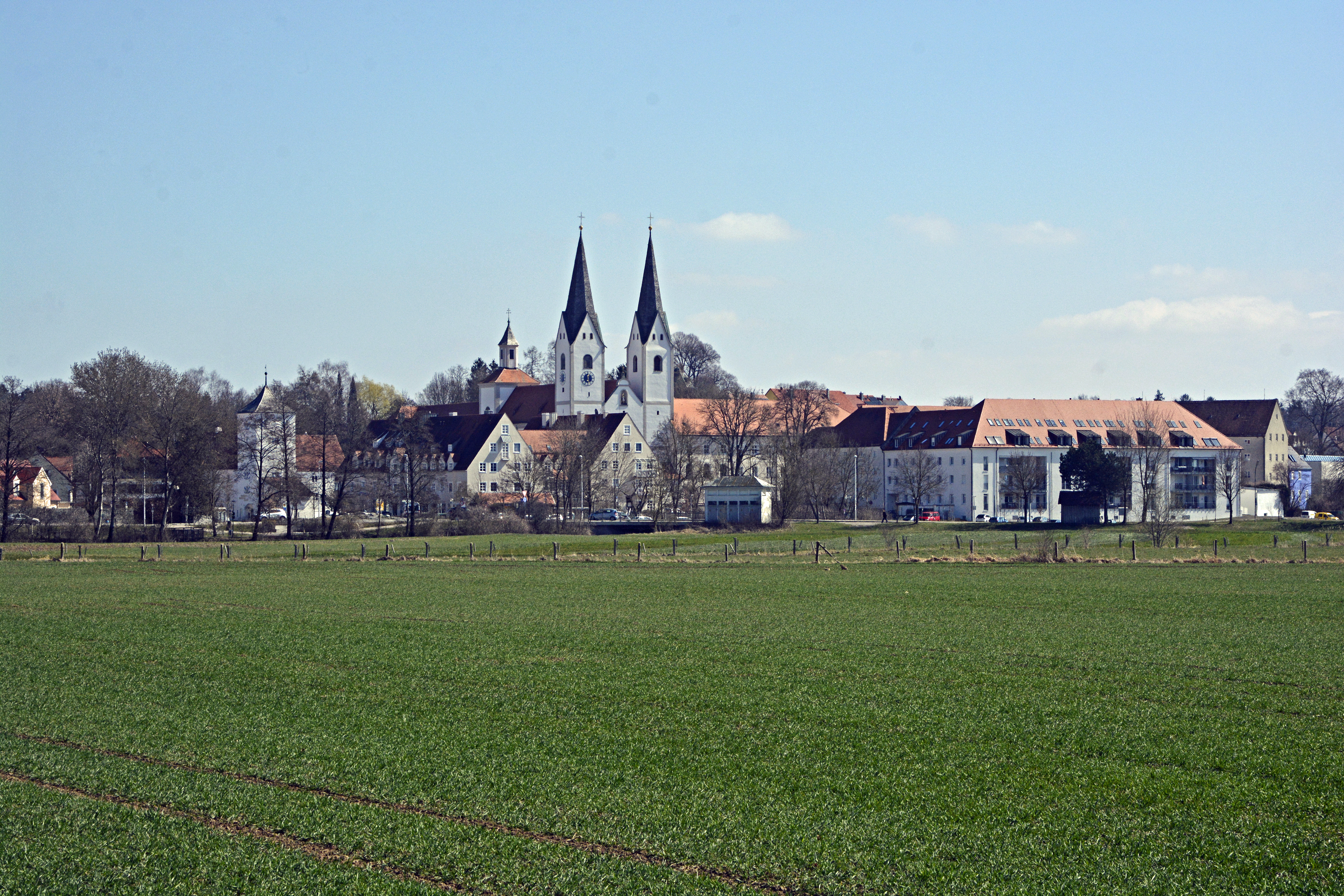 Markt Indersdorf (Monastery Indersdorf with Augustinian Canons Tower) - View from the West